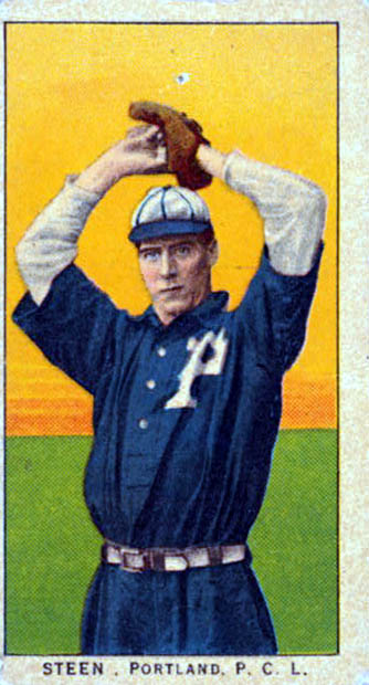 Bill Steen of the Portland Beavers in 1910.